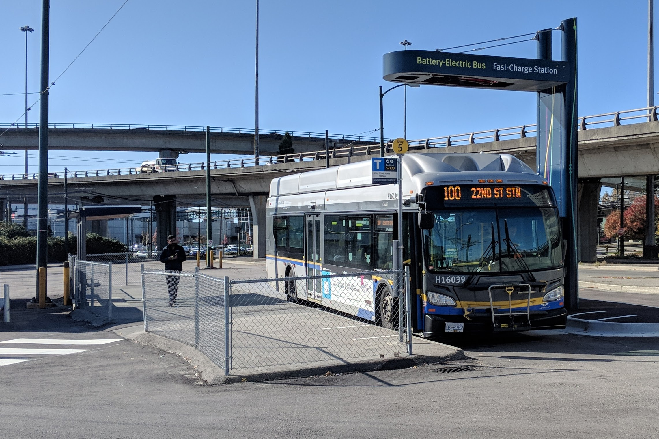 Charging station for battery-electric buses at Marpole Loop. Photo taken in October 2019.